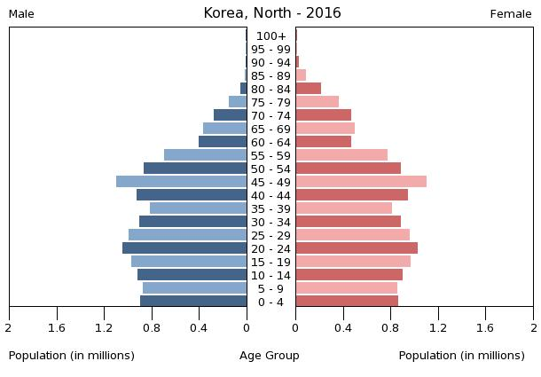 The population pyramid of North Korea illustrates the age and sex structure of population and may provide insights about political and social stability, as well as economic development. The population is distributed along the horizontal axis, with males shown on the left and females on the right. The male and female populations are broken down into 5-year age groups represented as horizontal bars along the vertical axis, with the youngest age groups at the bottom and the oldest at the top. The shape of the population pyramid gradually evolves over time based on fertility, mortality, and international migration trends.